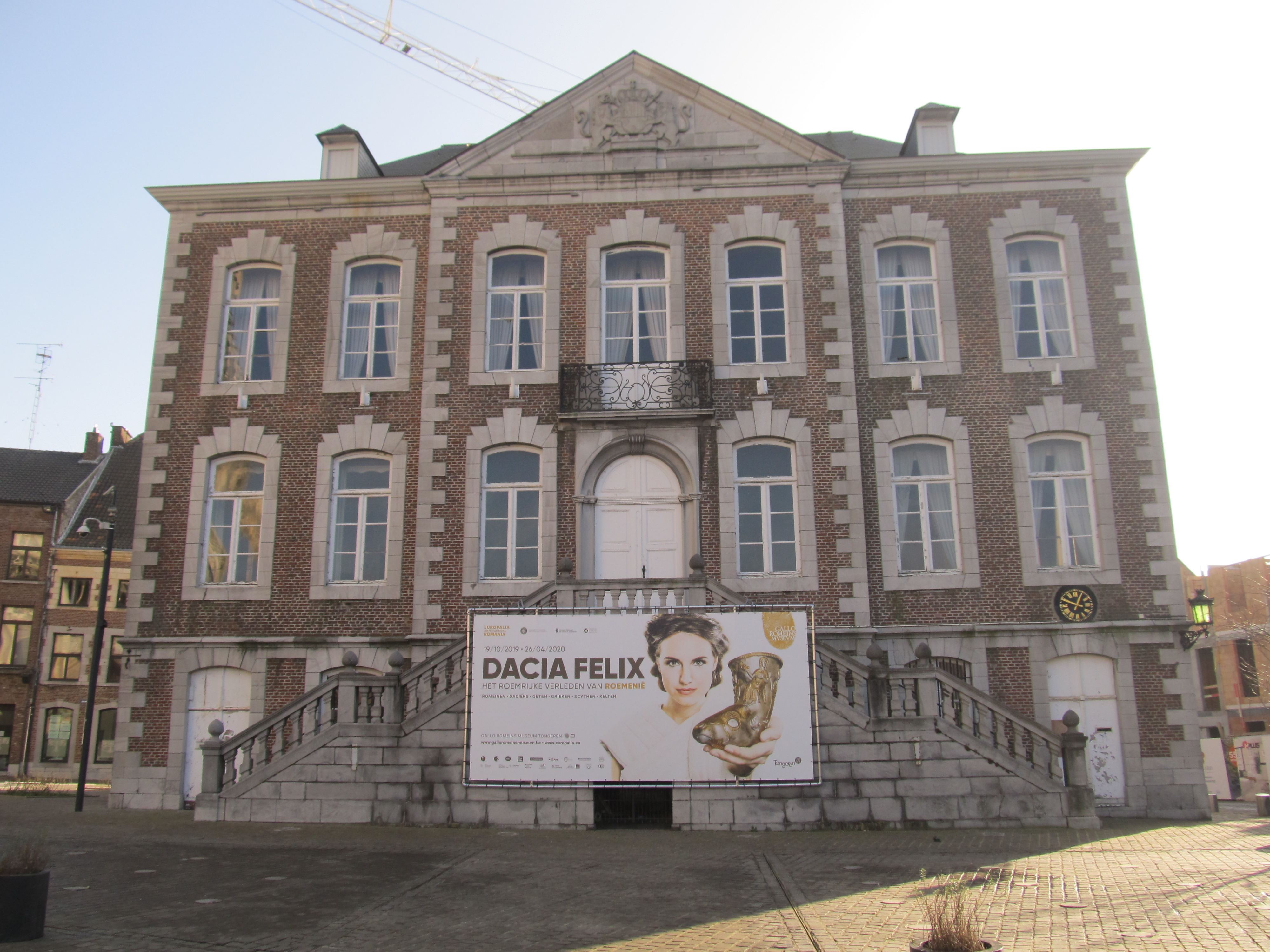 Poster of the exhibition "Dacia Felix — Romania's Glorious Past" on front of the town hall building of Belgian city of Tongeren, during Europalia Romania 2019 cultural festival.